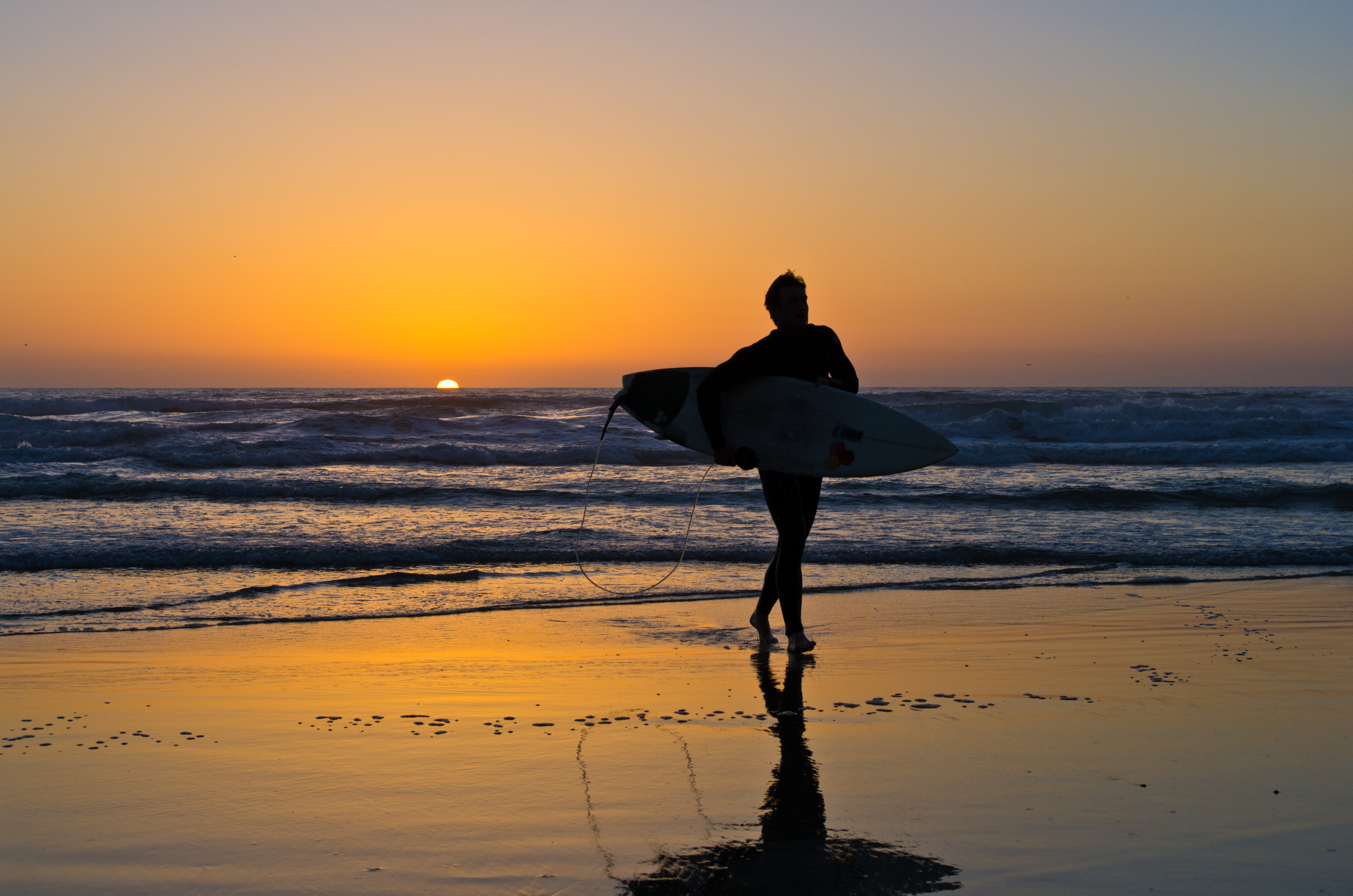 Black's Beach (San Diego)